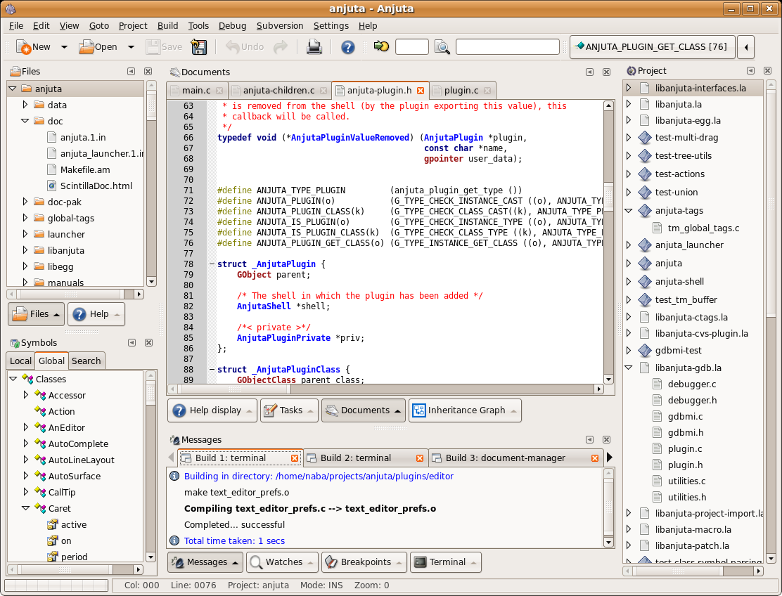 Screenshot of Anjuta IDE